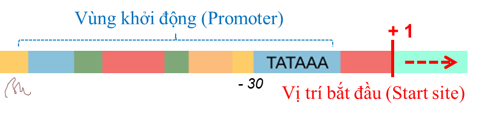 The assembly site of the PIC at promoter of the eukaryotic gene (Transcription pre-initiation complex)